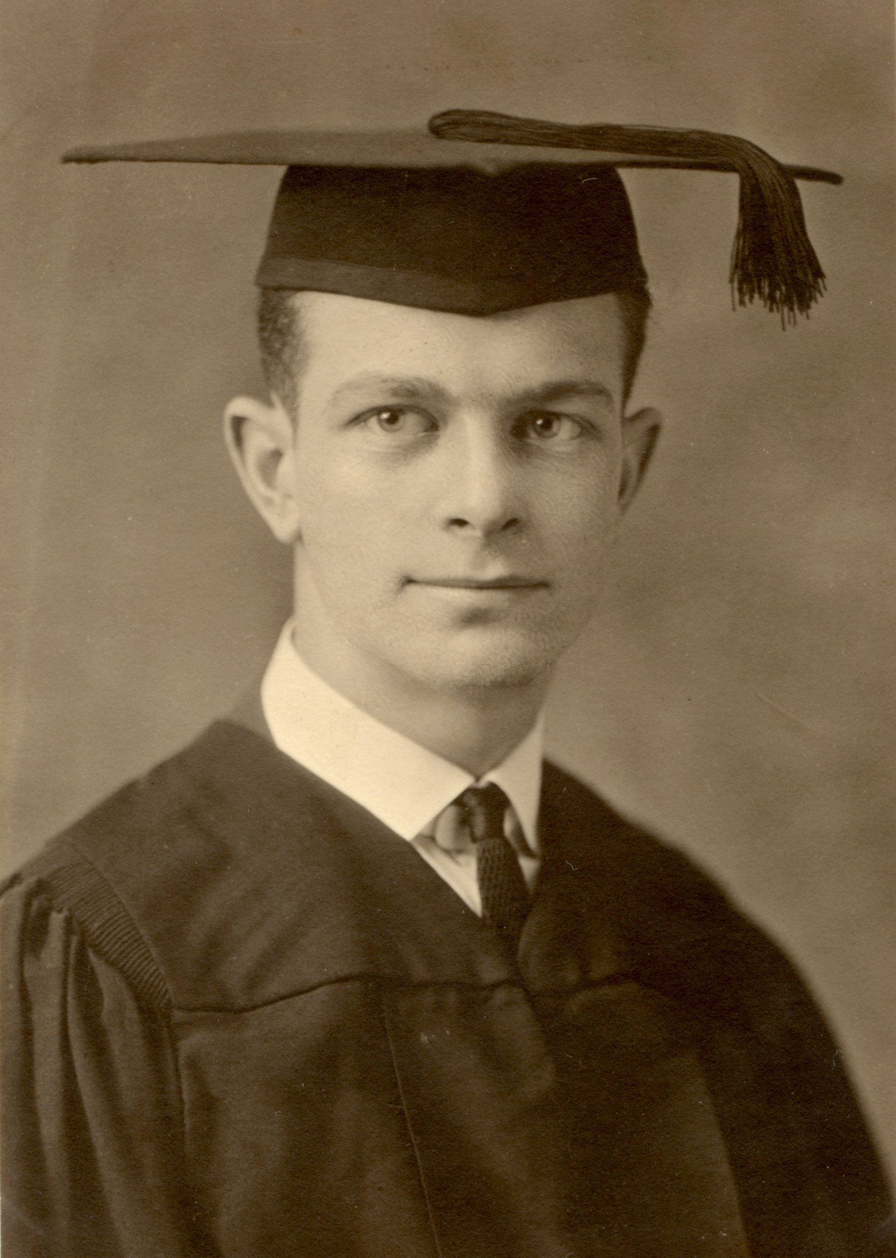 Linus Pauling's graduation portrait from Oregon Agricultural College. He graduated with a degree in chemical engineering in 1922.